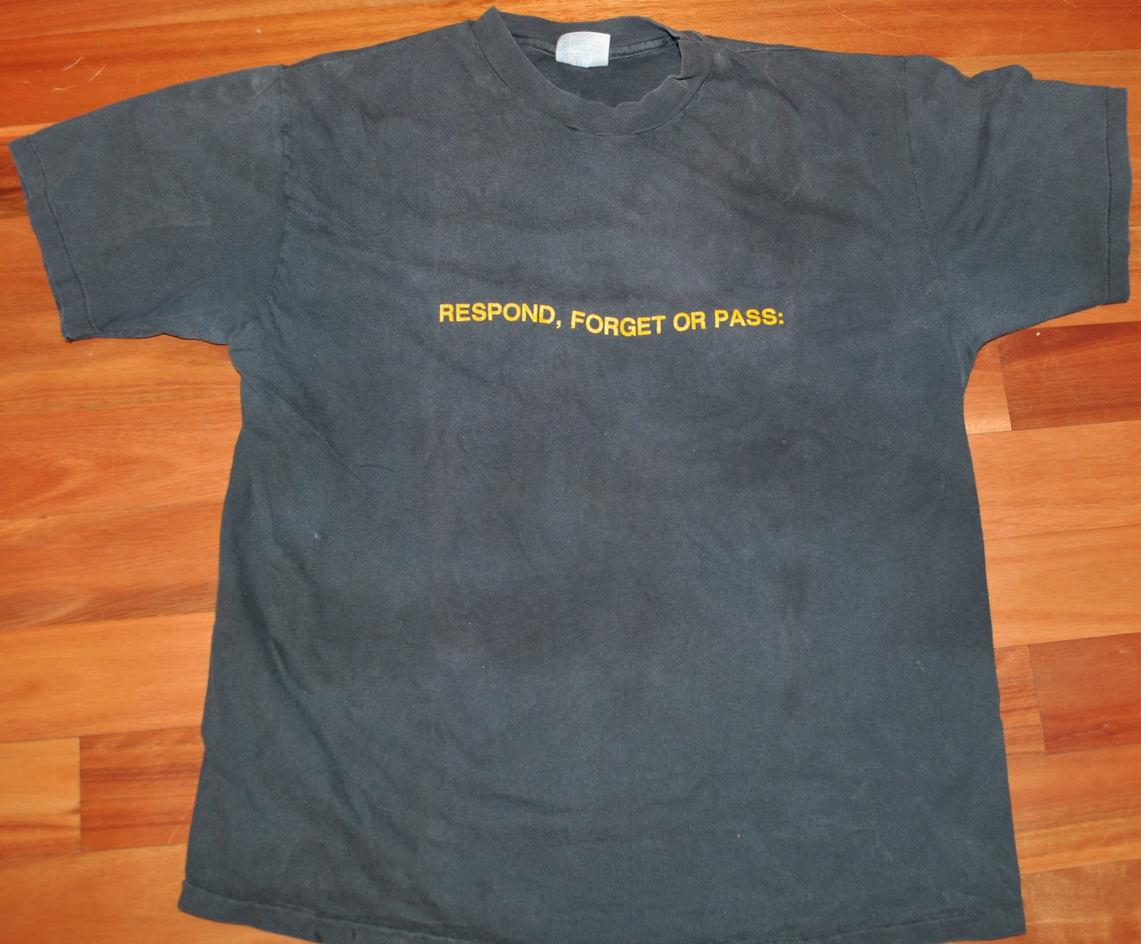 Front of a MEET:STUDENTS T-shirt showing a CONFER prompt, "RESPOND, FORGET OR PASS:", c. 1986, University of Michigan, Ann Arbor, Michigan, USA